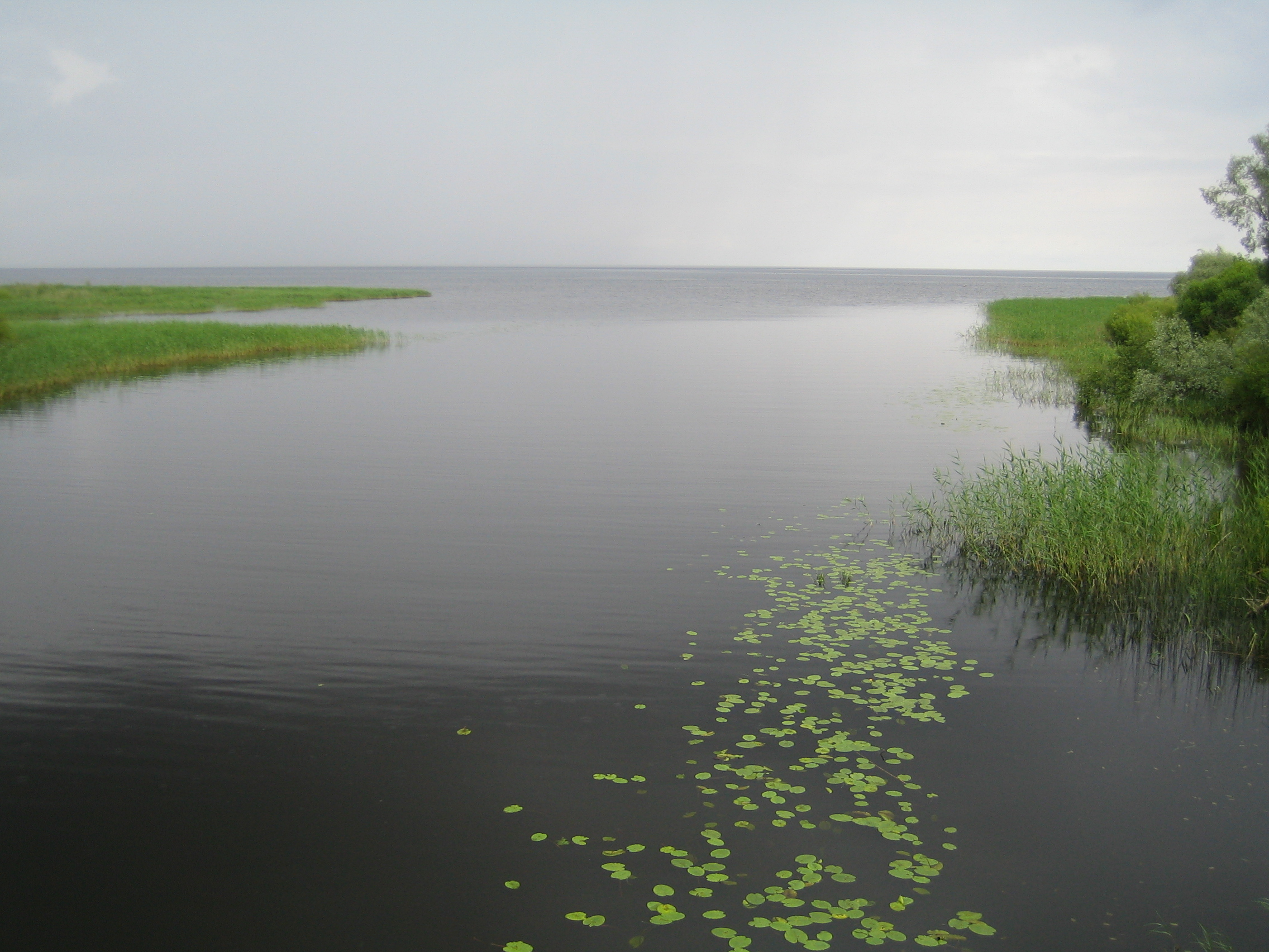 Omedu river in Omedu, Kasepää Parish, EstoniaEesti: Omedu jõgi suubumas Peipsi järve